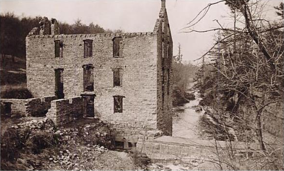 This picture will be displayed on the article about Ramsey Mill, in Hastings, Minnesota.